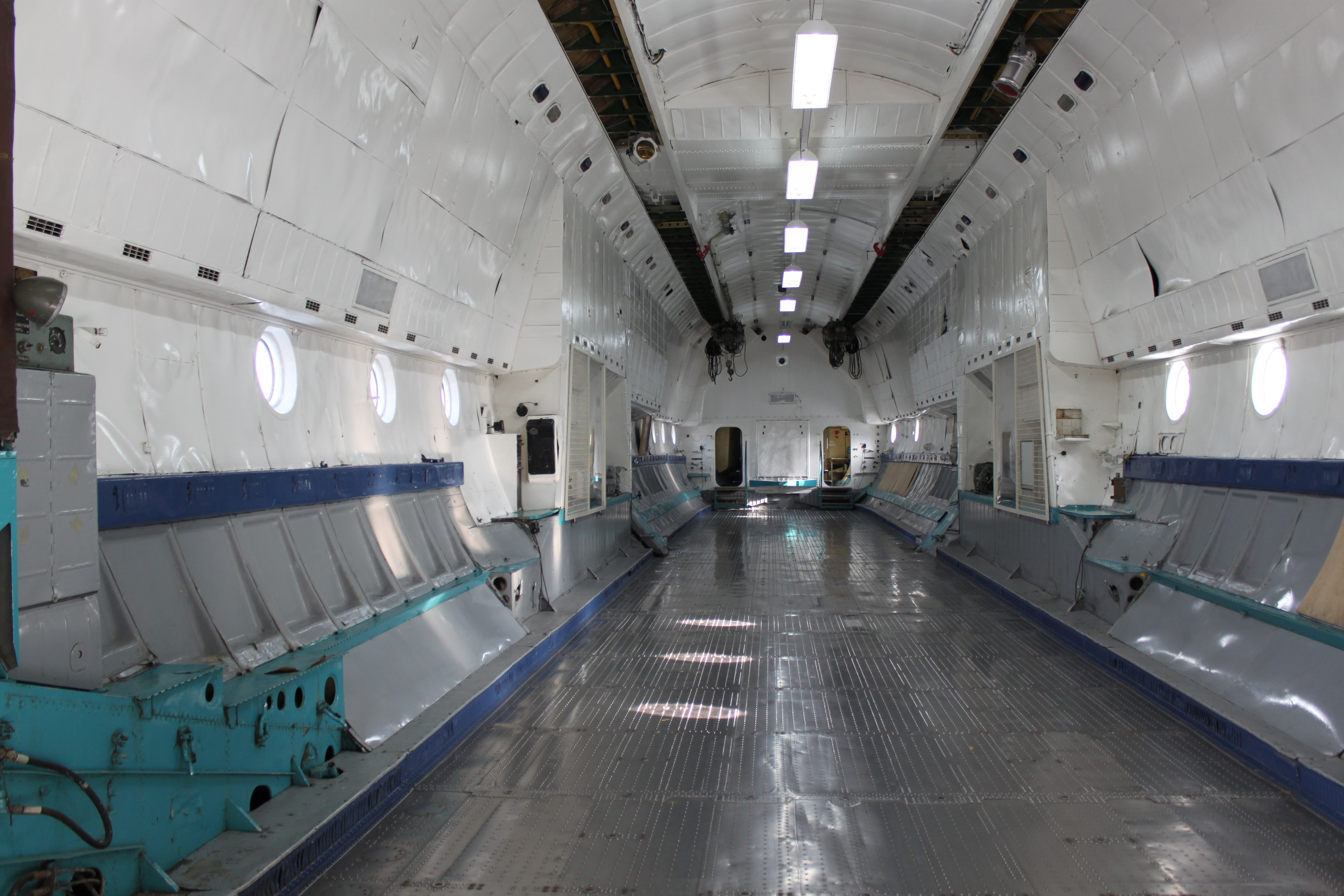 Load room of an Antonov AN-22 in the Technikmuseum Speyer